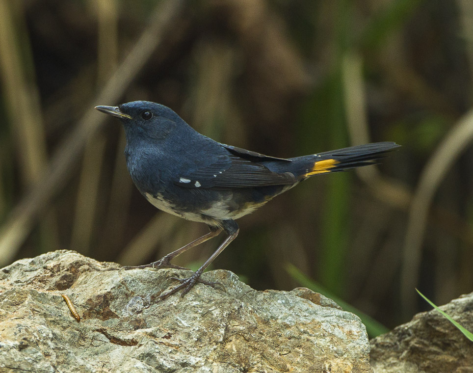 White-bellied Redstart Luscinia phoenicuroides, Chiang Mai, Thailand